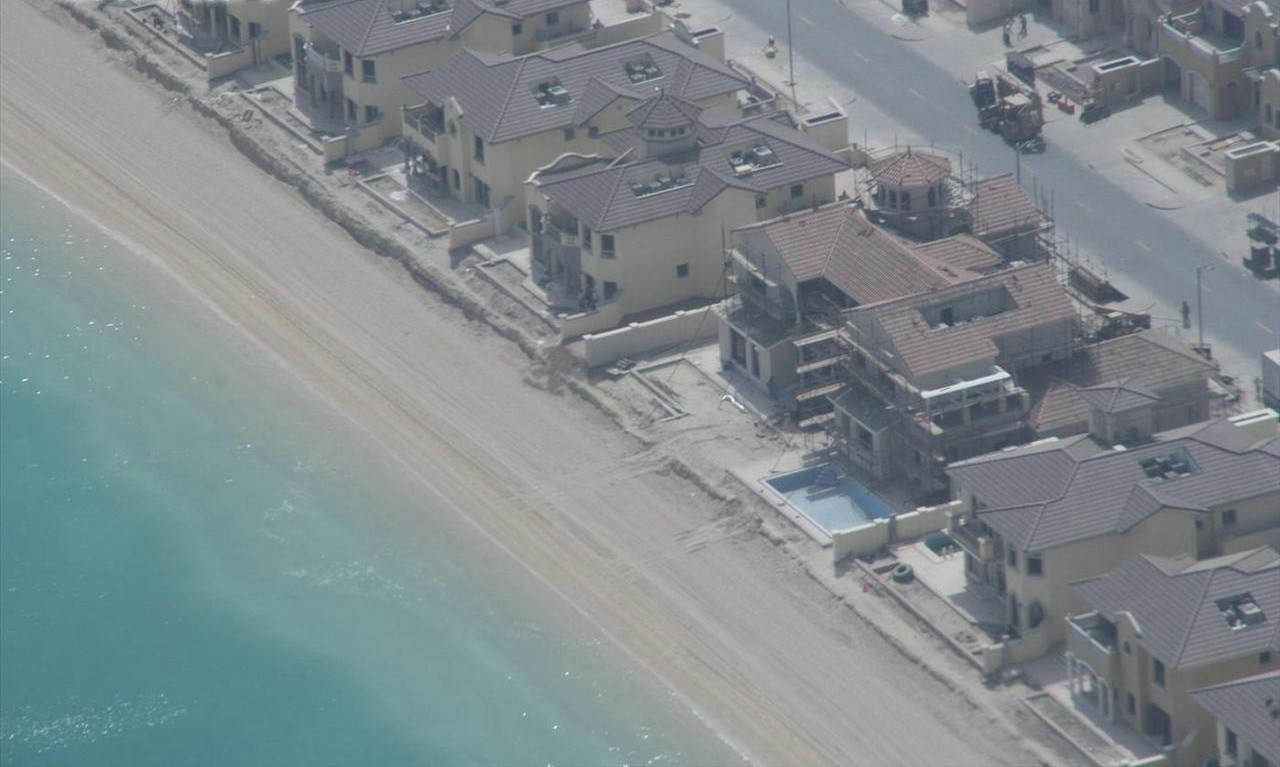 This is a photo showing some villas on a frond on the Palm Jumeirah in Dubai, United Arab Emirates as seen from the air on 1 May 2007.